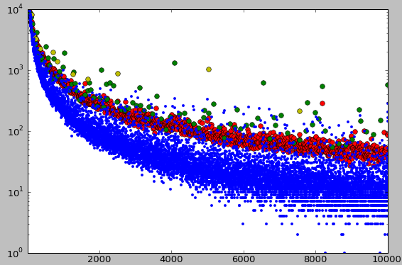 Sloane's gap: occurences (y) of an integer n (x-axis) in the OEIS, green: a^n, red: primes, blue: boring, separated by a gap from more interesting numbers on the top.